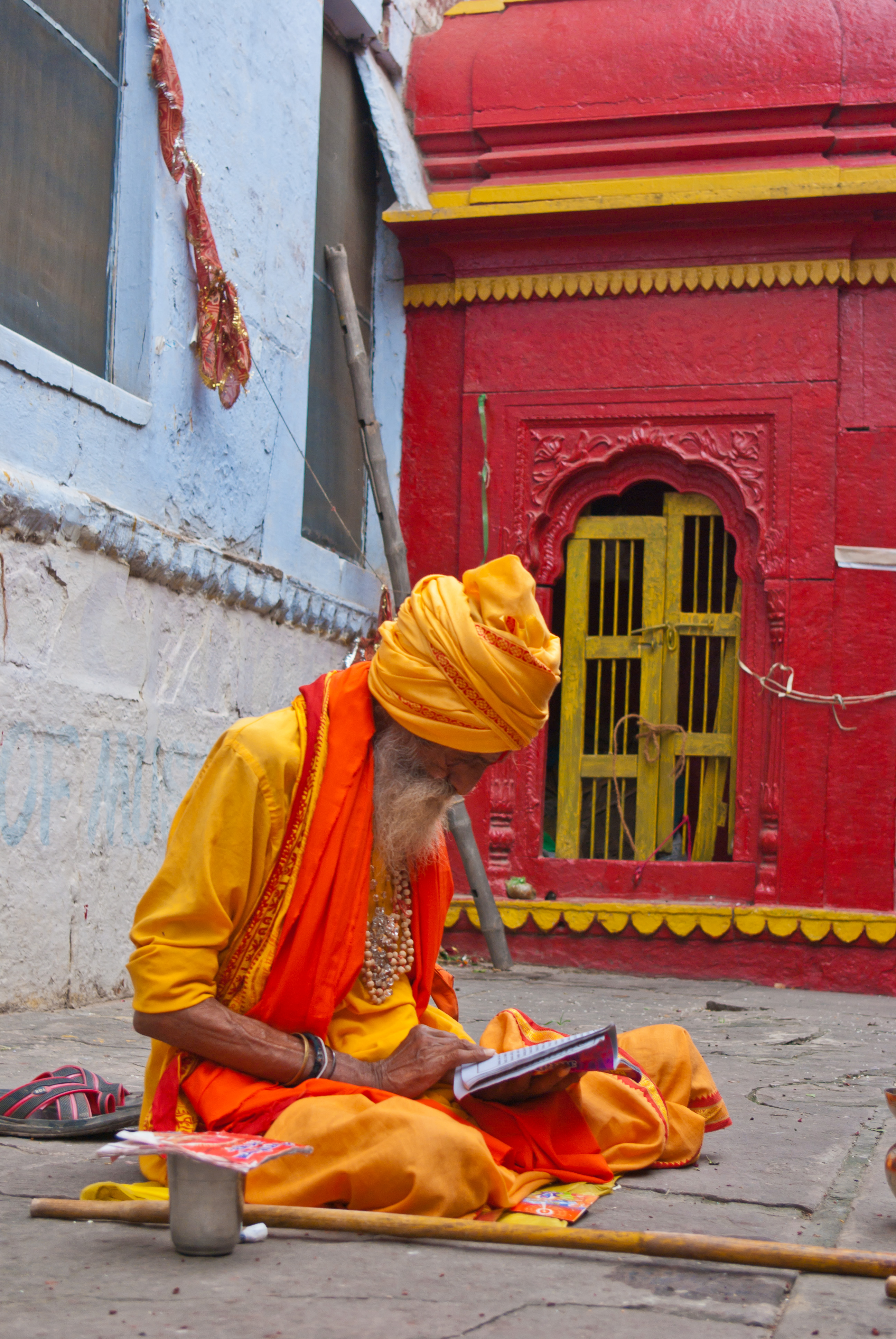 People of Varanasi